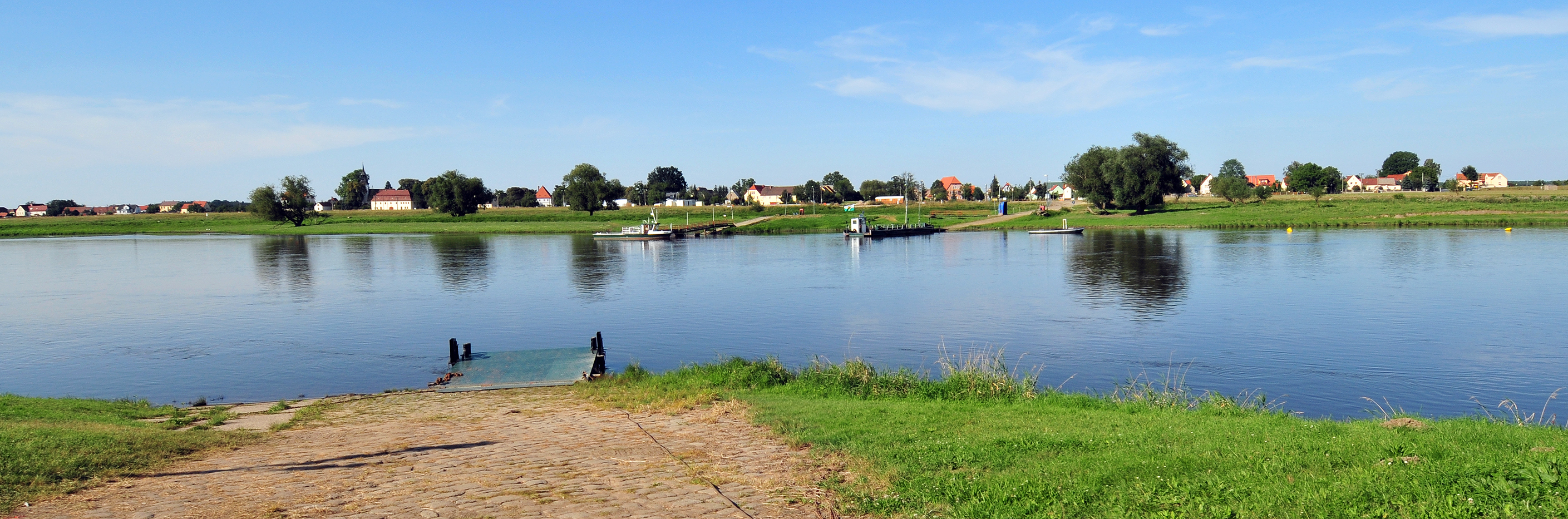 View from Strehla to Lorenzkirch (Zeithain, Saxony, Germany) with the river Elbe.